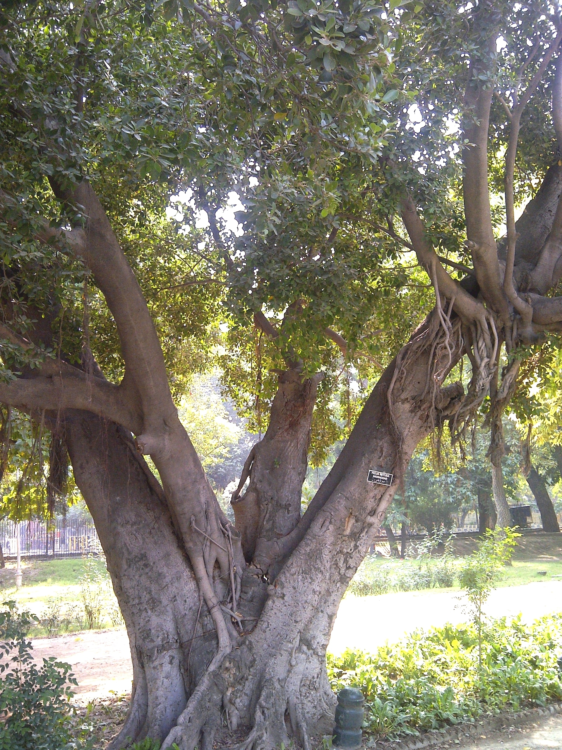 Cuban laurel tree in Bagh-e-Jinnah garden park, Lahore, Pakistan